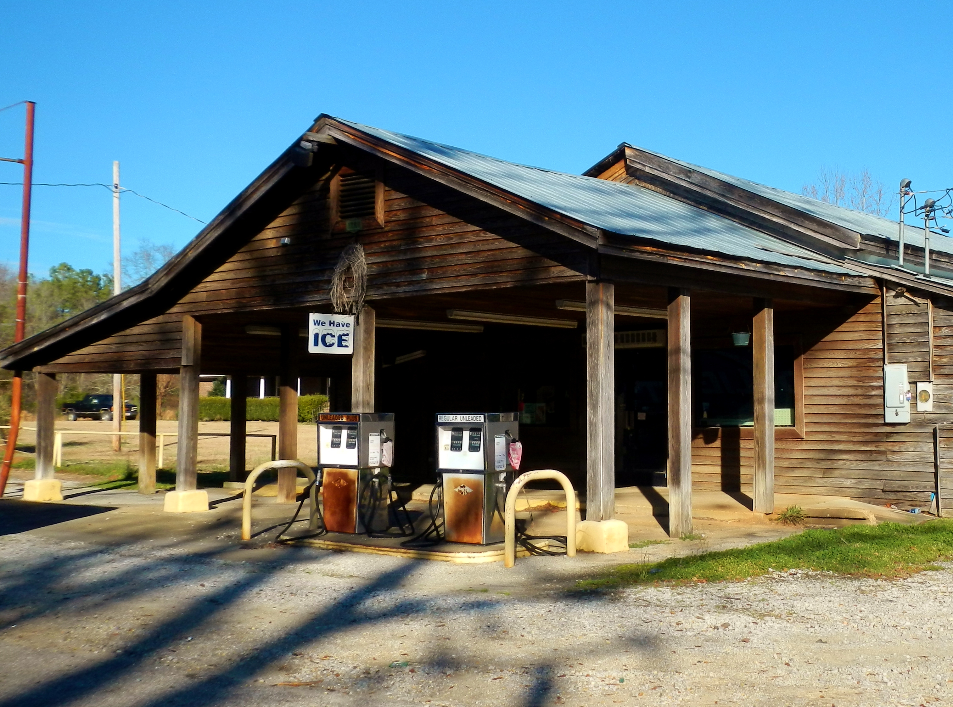 This is a photograph of the general store in Gordonville, AL.